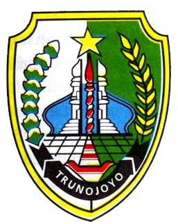 Coat of arms of Sampang Regency, East Java